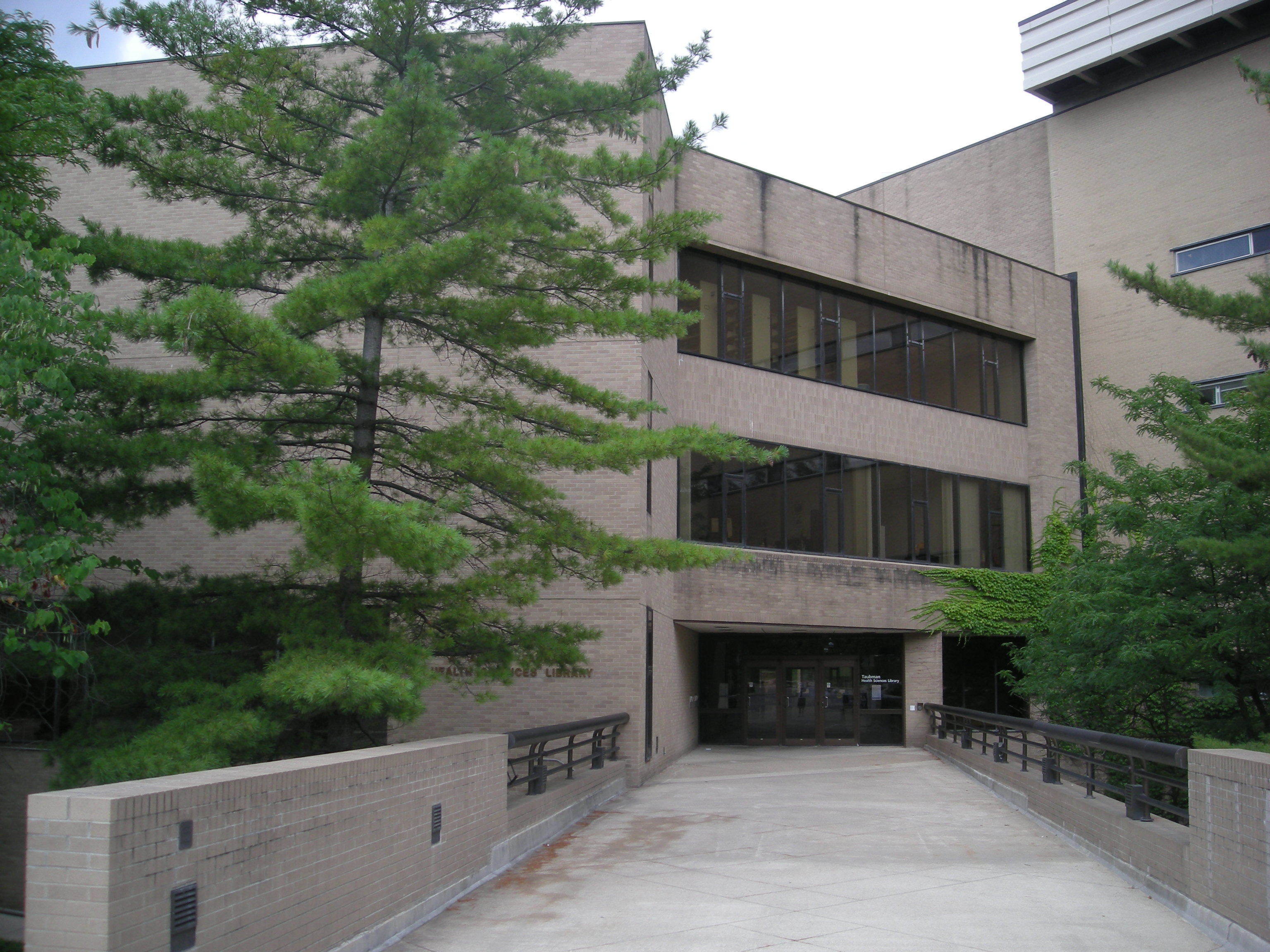 The Taubman Health Sciences Library on the medical campus of the University of Michigan in Ann Arbor, Michigan (United States).